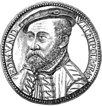 Image of medal by Steven van Herwijk. Bust of Edmund Withipoll, three-quarters, facing left, bonneted, pointed beard, small ruff, doublet fastened by one button, worked button-holes, slashed sleeves. Legend Edmvnd Withipoll . AE . 48. Stops, lozenges. On truncation, Ste. H. F. From Hawkins, Edward, Medallic illustrations of the history of Great Britain and Ireland to the death of George II. Volume I. Edited by Augustus W. Franks & Herbert Appold Grueber The British Museum, 1885.